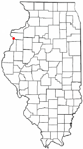 Category:Illinois city locator maps